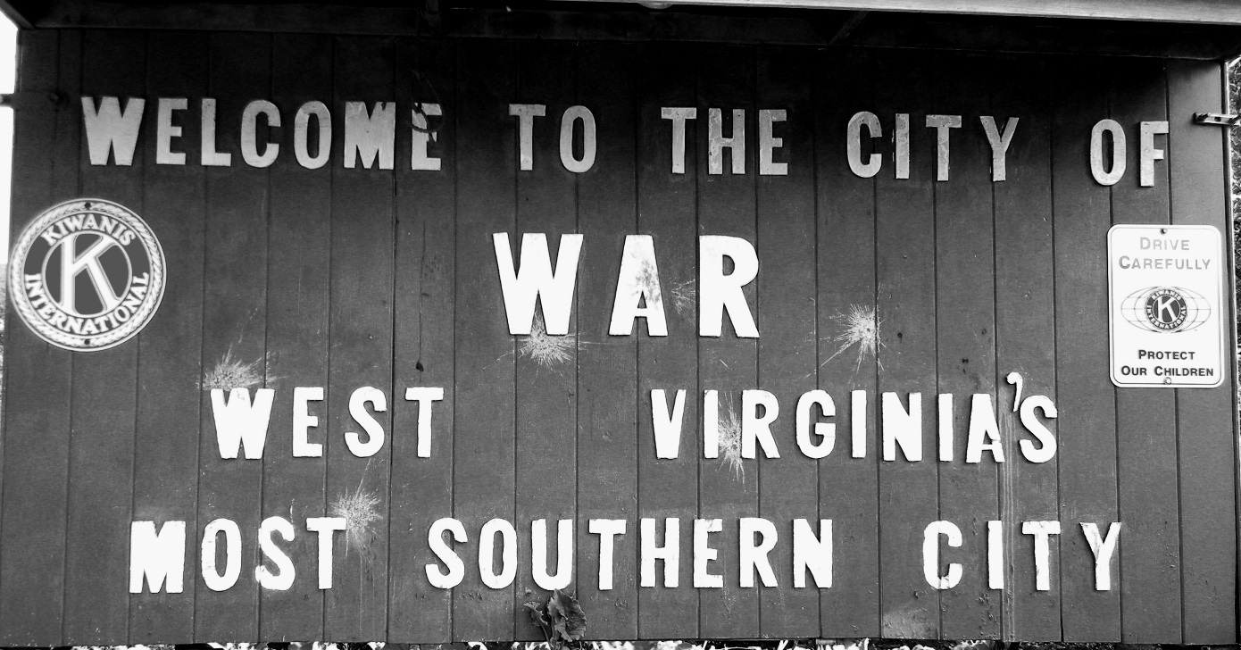 City of War WV sign